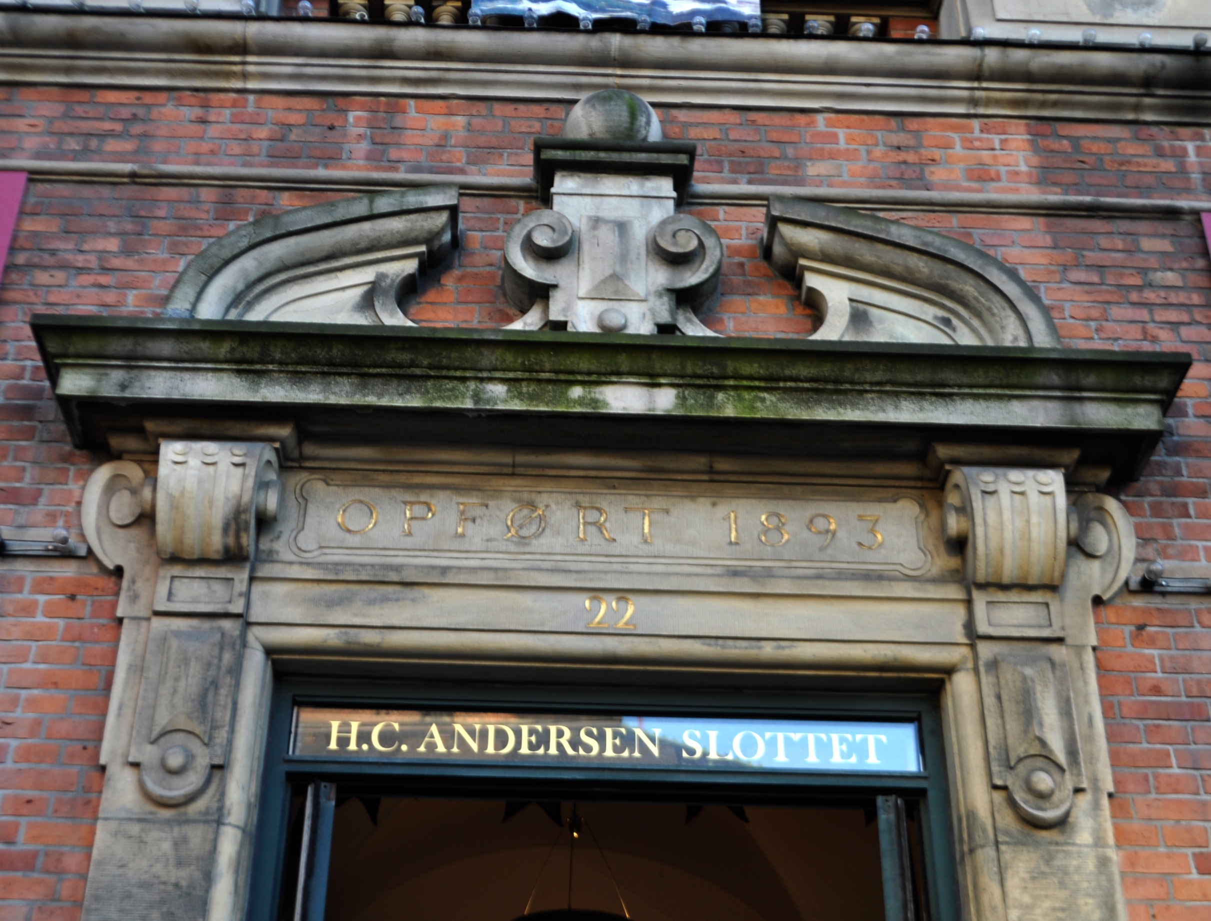 H.C. Andersenslottet in Copenhagen, photographed 2011-12.27.